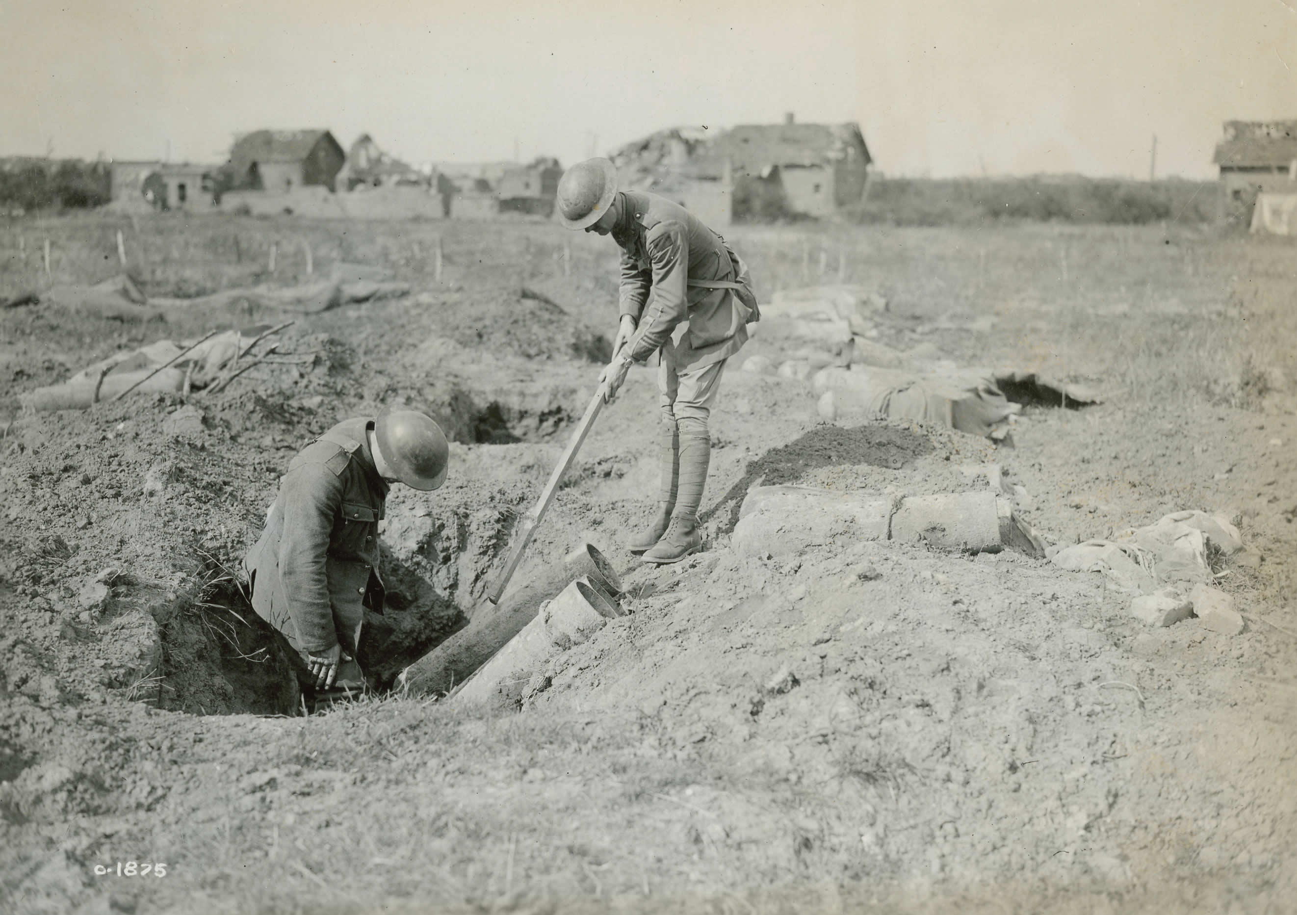 This projector, an 8-inch diameter metal pipe, fired a cylindrical bomb containing gas. Dozens of Livens projectors firing at the same time could smother enemy lines with dense concentrations of gas that could overwhelm respirators, but it was difficult to bring these cumbersome weapons into the front lines.